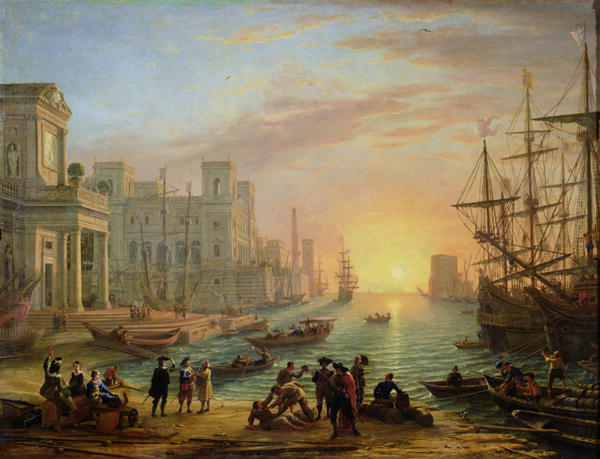 Claude Lorrain painting from 1639, as seen on French TV series Palettes